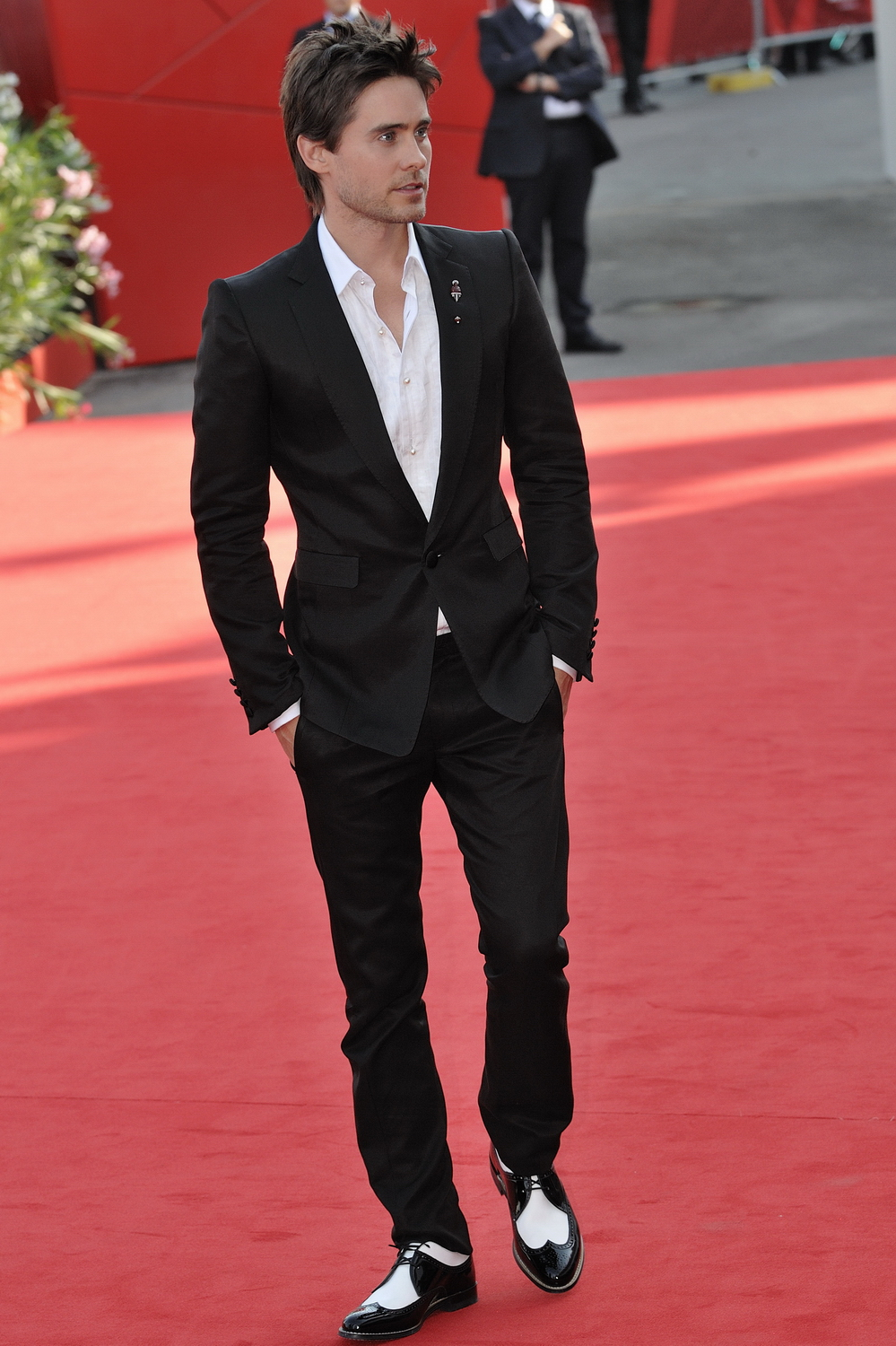 Jared Leto at the 66th Venice International Film Festival.